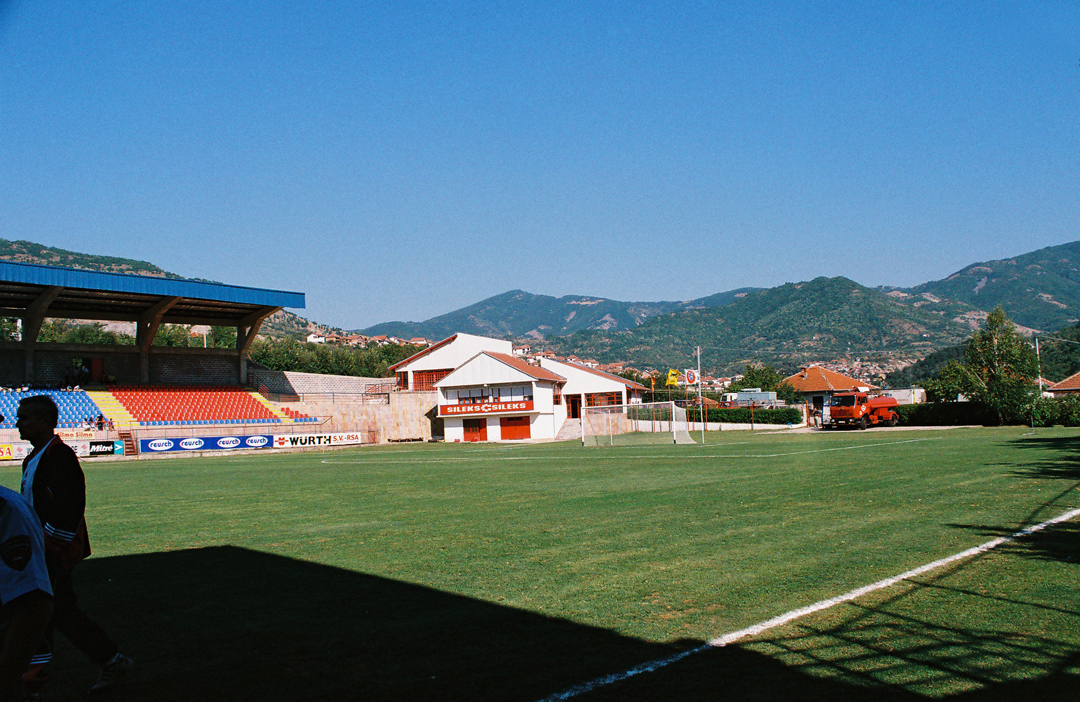 Gradski stadion Kratovo in Kratovo, Republic of Macedonia